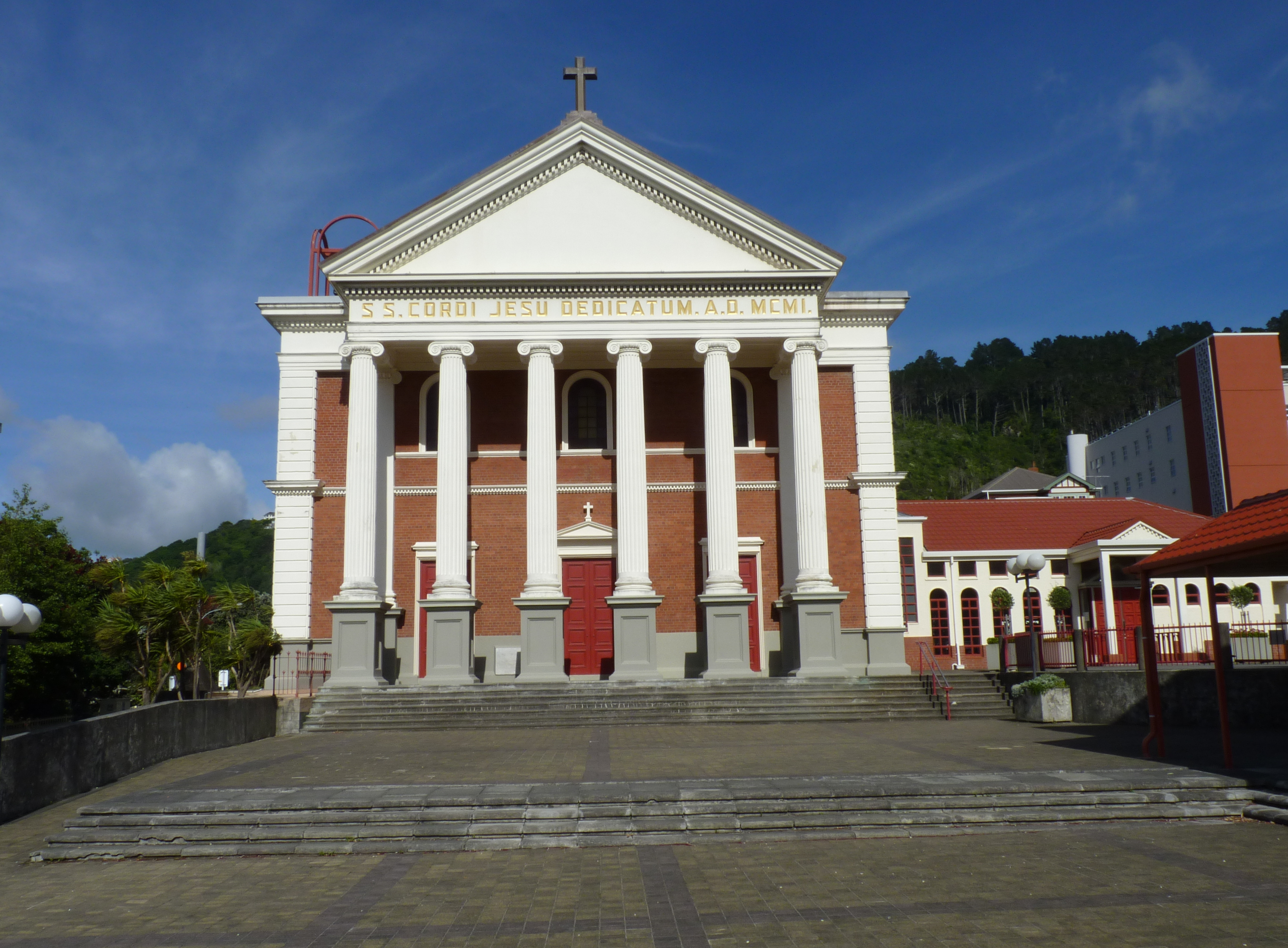 Sacred Heart Cathedral. Wellington, New Zealand